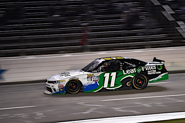 Blake Koch piloting the No. 11 LeafFilter Gutter Protection Chevy at Texas Motor Speedway.